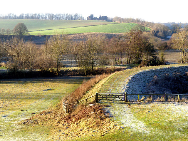 Towards Goodrich Castle The earthwork in the picture I believe is to protect the timber at Walford Sawmills. The valley of the River Wye narrows here and floods on a regular basis. Going across the middle left of the picture you can see the embankment for the old railway that ran between Lydbrook Junction and Ross on Wye, Kerne Bridge station was only a few hundred yards up the line from here. The original line was constructed by the Ross and Monmouth Railway. On the hill in the distance can be seen the ruin of Goodrich Castle.